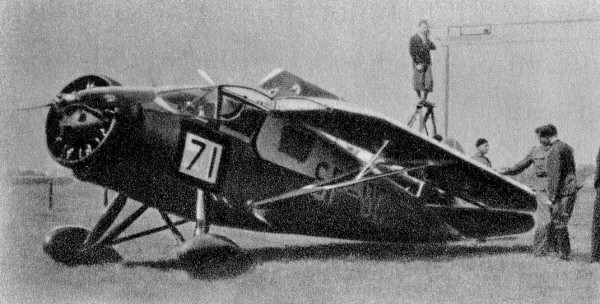 Polish touring plane RWD 9 of Jerzy Bajan during wings folding trial, during the International Touring Aircraft Contest Challenge 1934